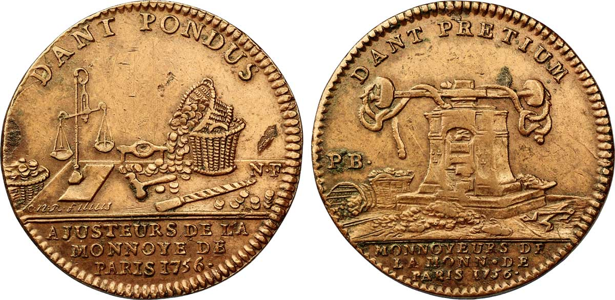 Jeton de la corporation des monnayeurs et ajusteurs de la Monnaie de Paris, 1756. Description avers : Balances, corbeilles remplies de monnaies et outils de monnayeurs .